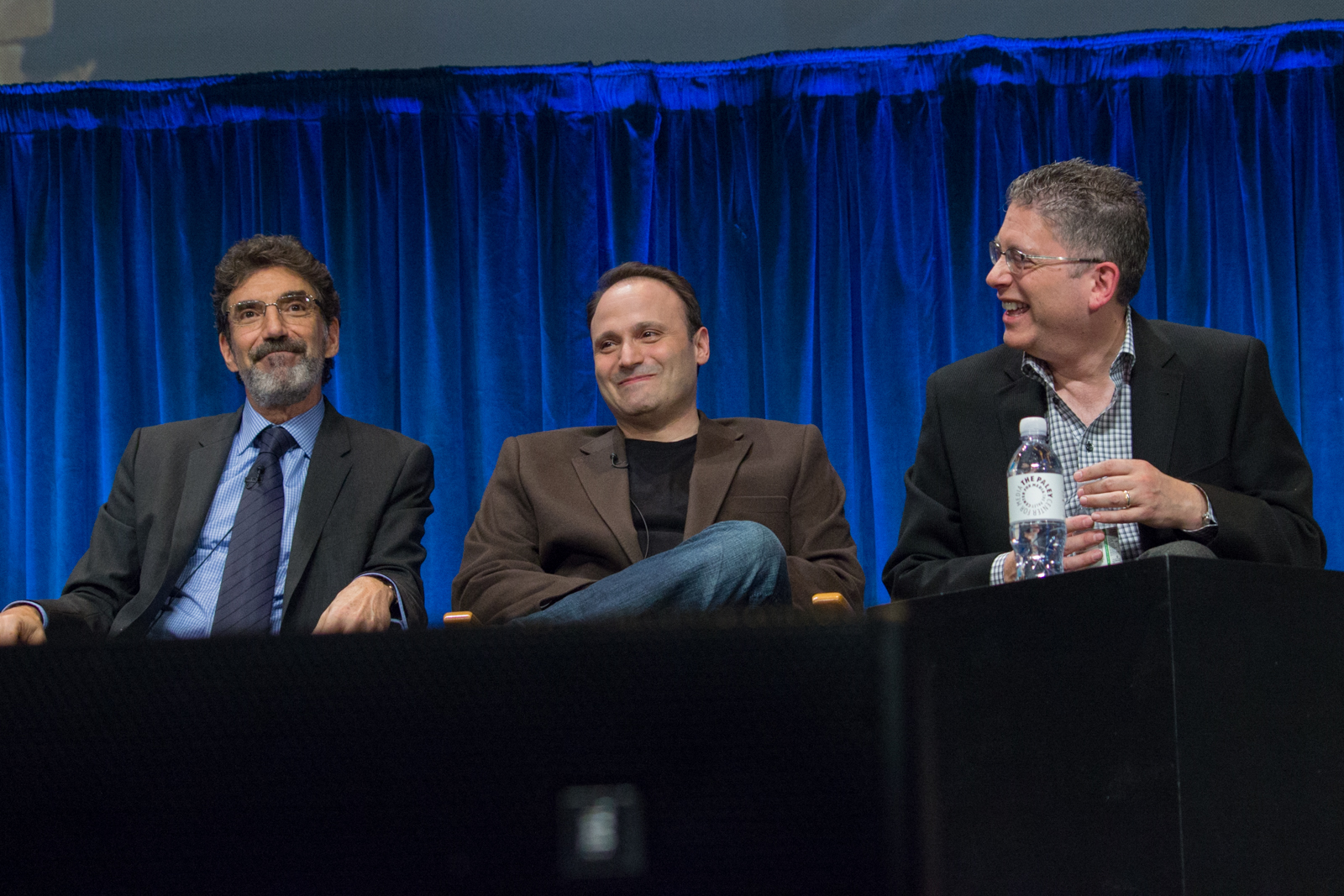 Chuck Lorre, Steven Molaro and Bill Prady at PaleyFest 2013 for the TV show "Big Bang Theory"